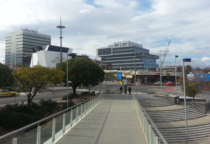 Dandenong CBD skyline (western edge) viewed from the railway station including the ex-Australian Taxation Office tower (tallest office building on the left), "Municipal Hub" (white building) and State Government Offices.